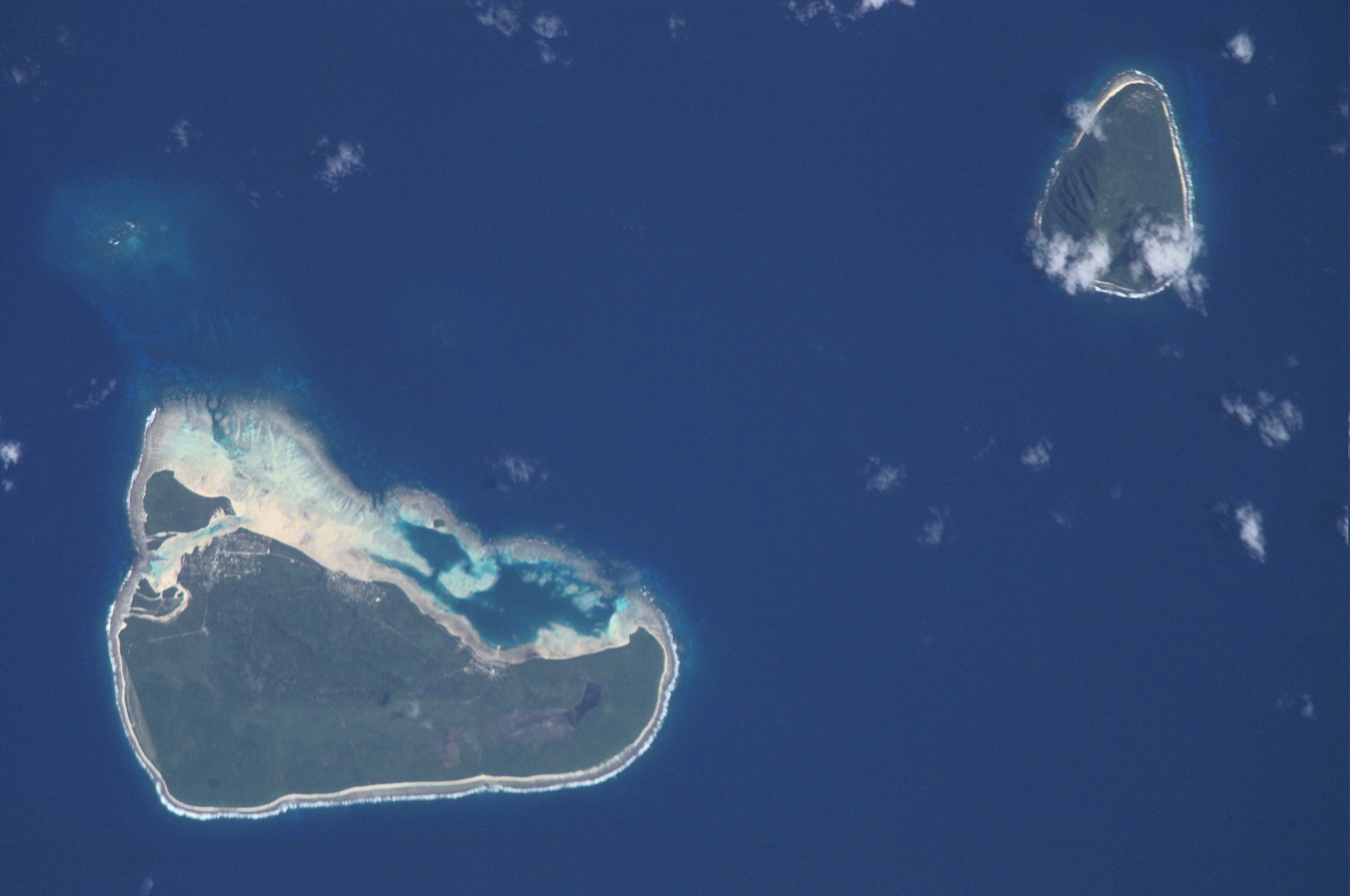 Niuatoputapu (south) and Tafahi (north) islands, Niuas Group, Tonga, from space.